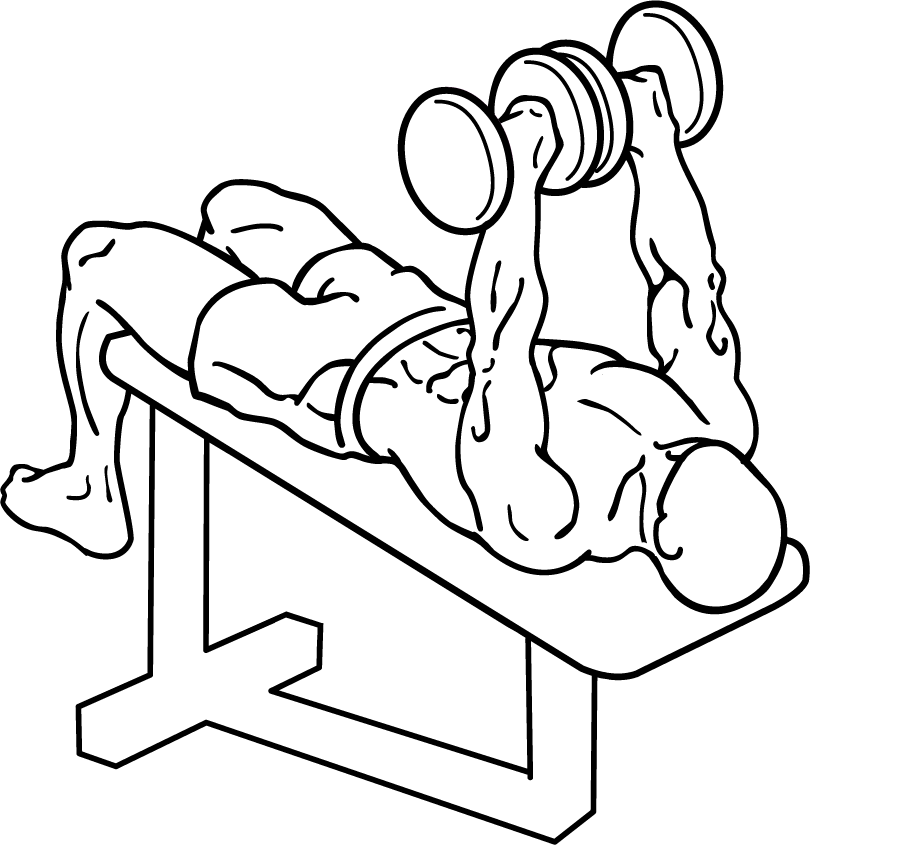 an exercise of chest